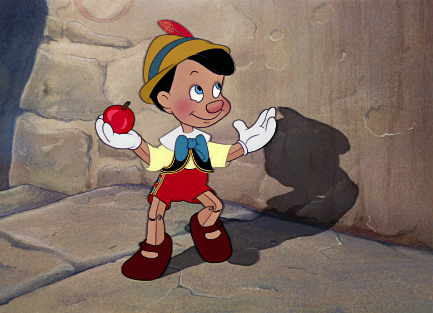 Screenshot of Pinocchio from the trailer for the film Pinocchio (1940).